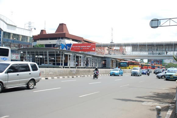 Busway bus stop at Harmoni called Harmoni Central Busway seen from its north side. Part of Coridor 1, 2 and 3 in TransJakarta Busway mass transport system. Taken using kamera Nikon D80, lensa Nikon 18-135mm F/3.5-5.6 G ED AF-S DX